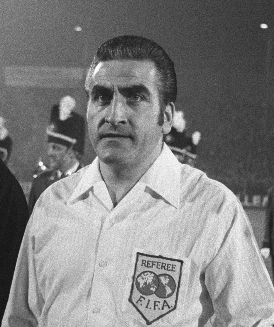 Ferdinand Biwersi in 1971.